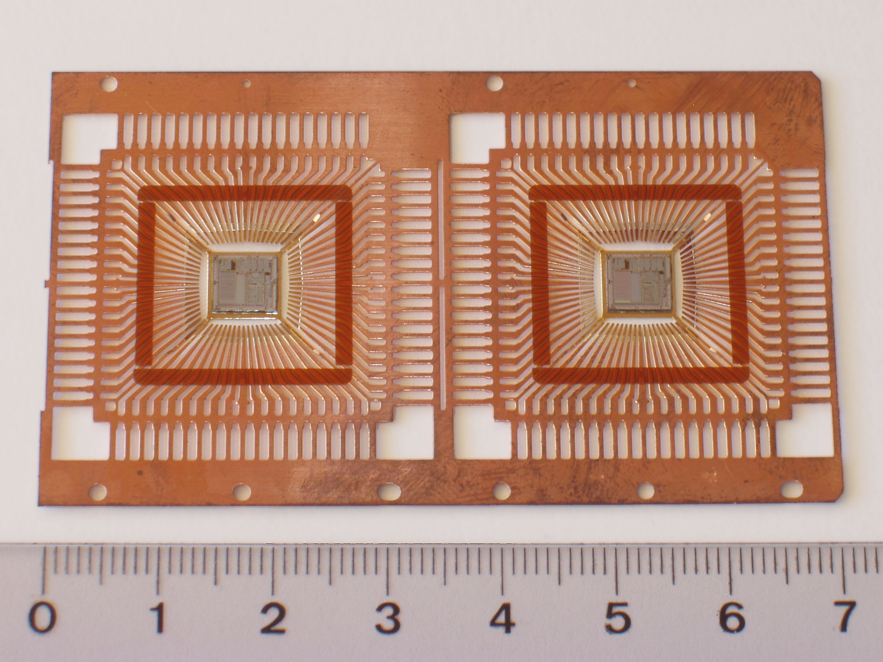 Leadframe for QFP Packages